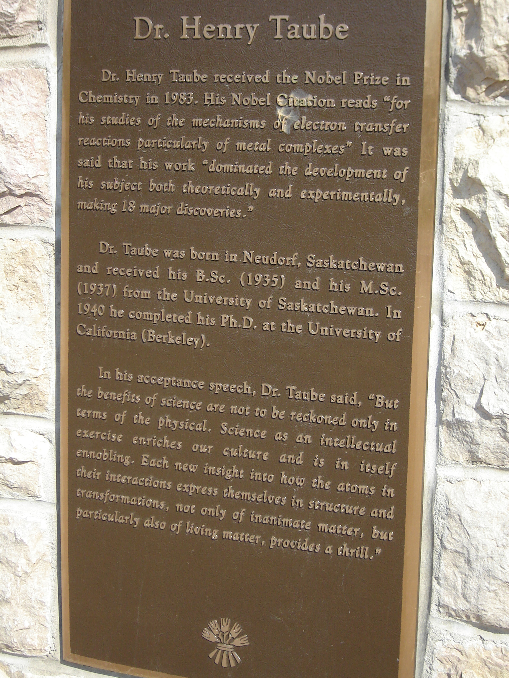 Dr Henry Taube plaque College Building U of S Saskatoon Sasktchewan Canada